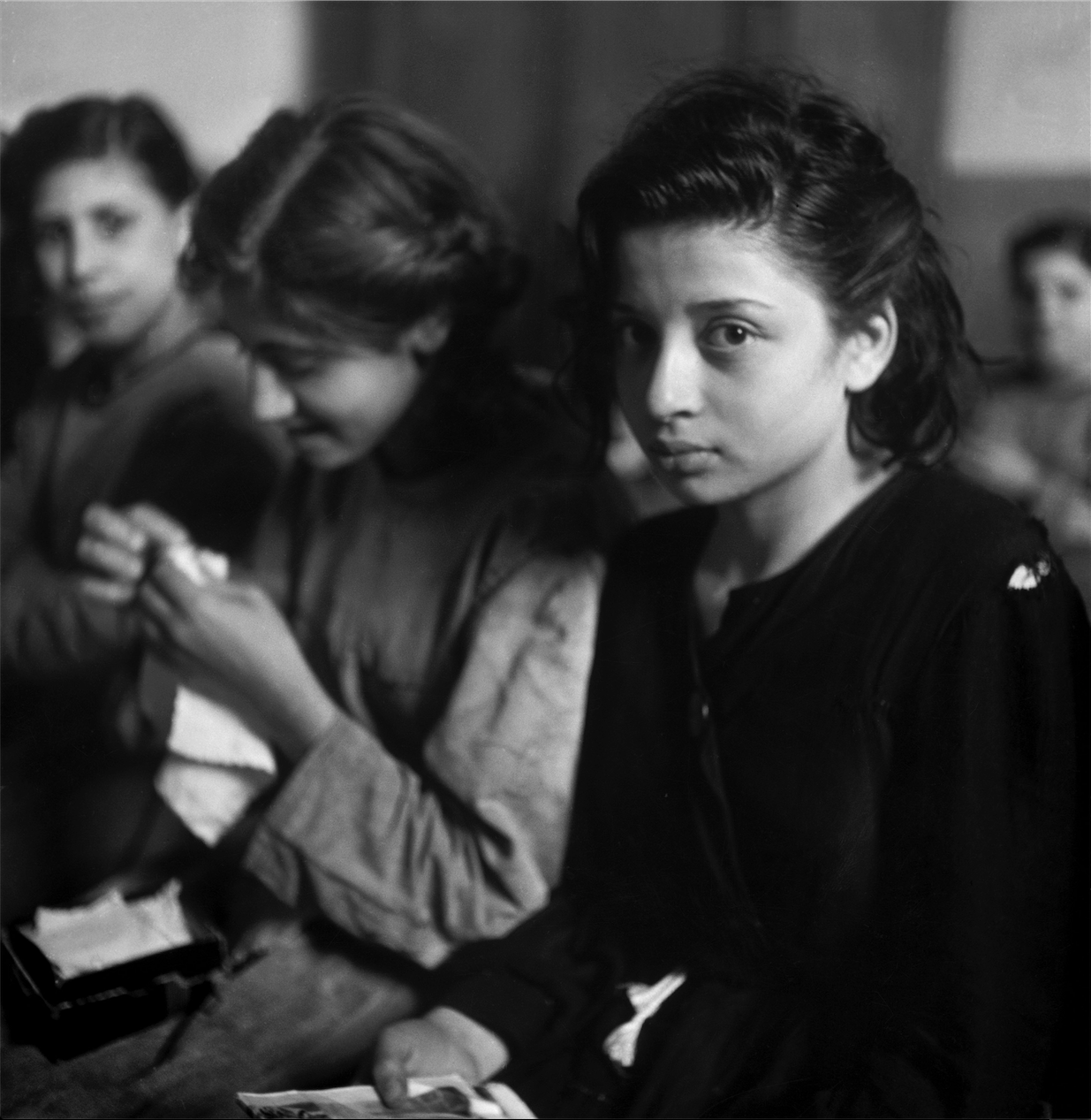 Italy. Naples. A young prostitute in the Albergo dei Poveri reformatory. Prostitutes, vagrants, and thieves were also sent there by the Naples Juvenile Court and taught embroidery by Catholic nuns. Over-population and misery have aggravated the problem of juvenile deliquency, which has increased in most countries because of the war and the aftermath of bad living conditions.